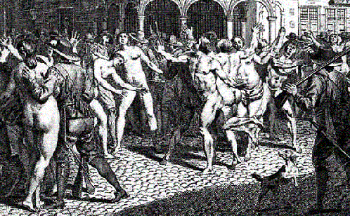 Adamites under persecution. The arrest of Adamites in a public square in Amsterdam.